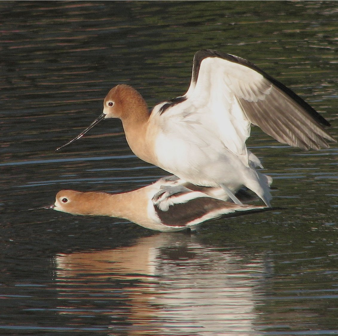 Mating American Avocets (Recurvirostra americana) in Berkeley Aquatic Park on the San Francisco Bay. Berkeley, California.